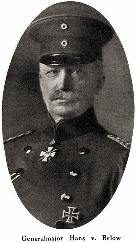 prussain major general Hans von Below